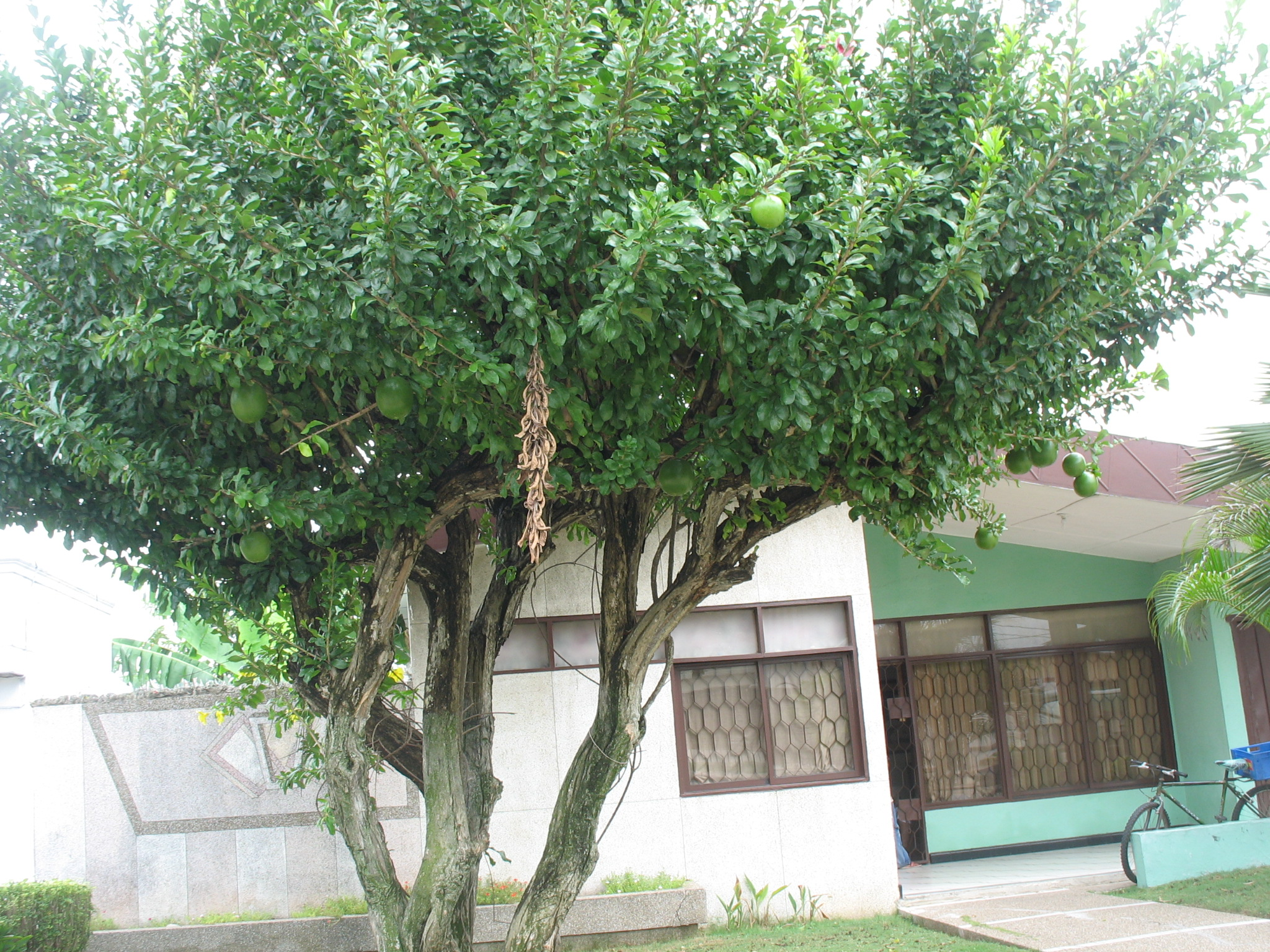 Totumo Barranquilla.